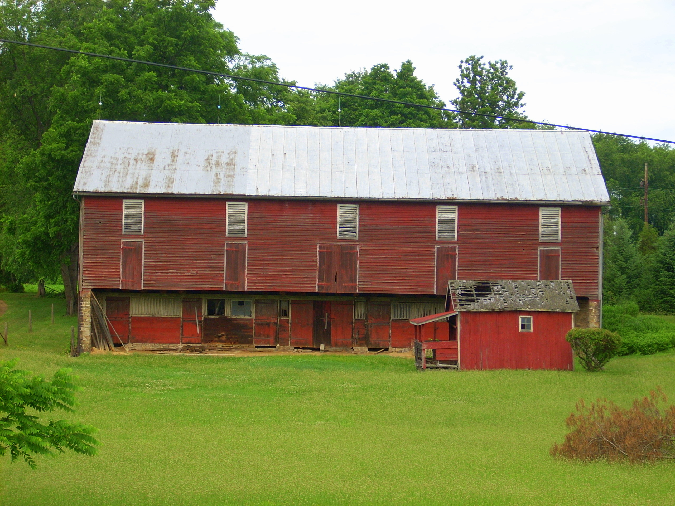 A farm on old U.S. Route 15 in White Deer Township, Pennsylvania